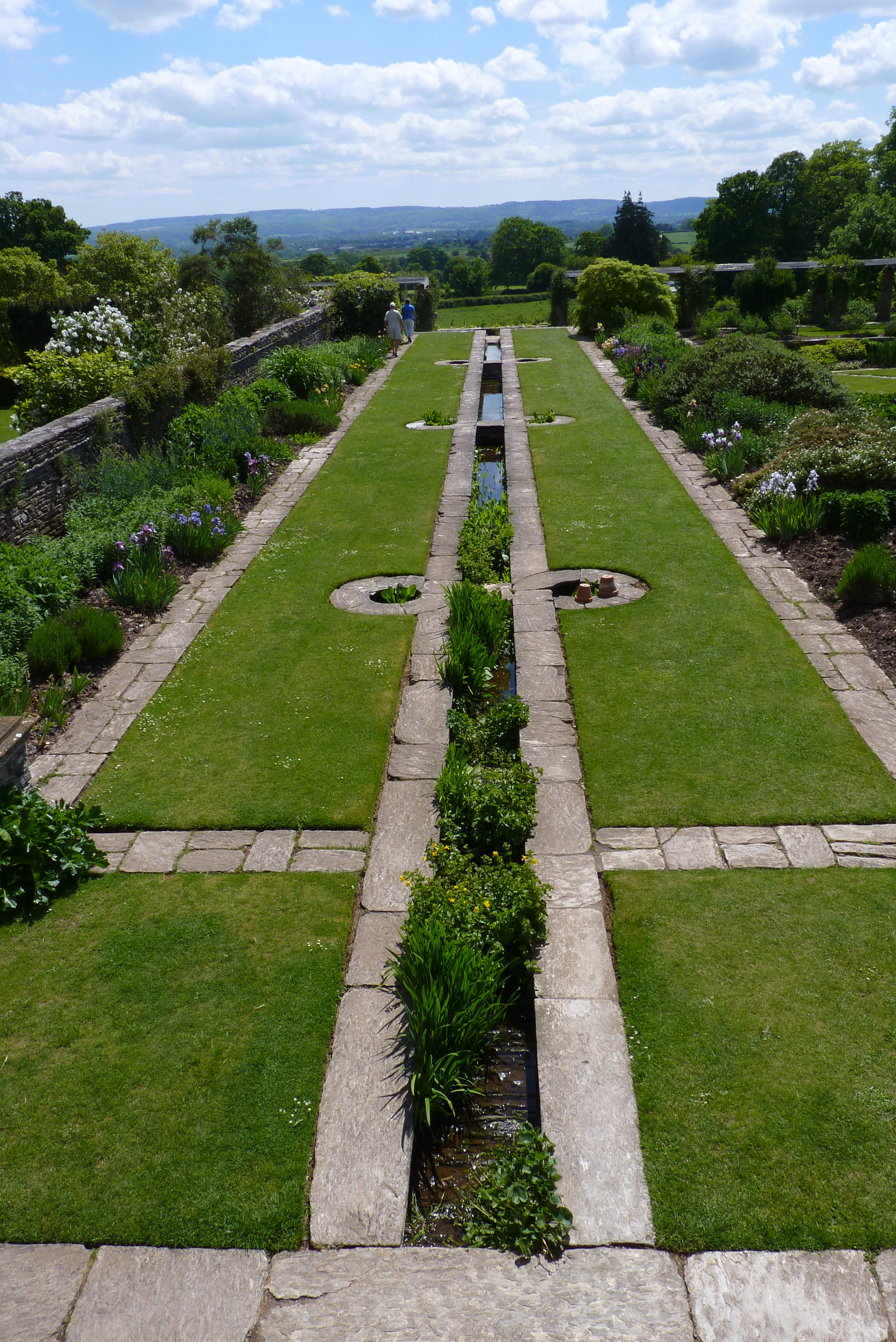 Rill beneath the Great plat in Hestercombe Gardens